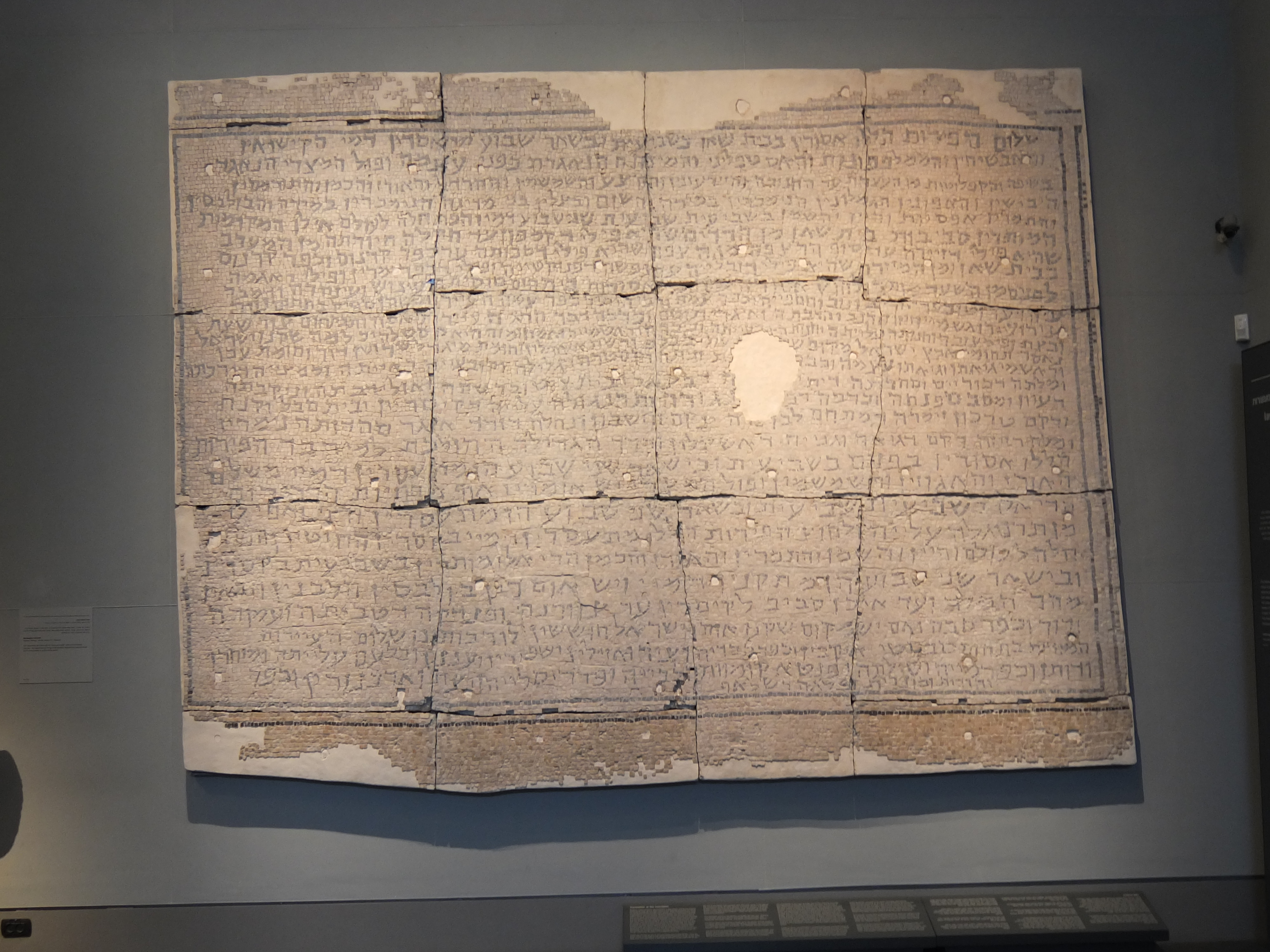 Mosaic of Rehob, at the Israel Museum, Jerusalem